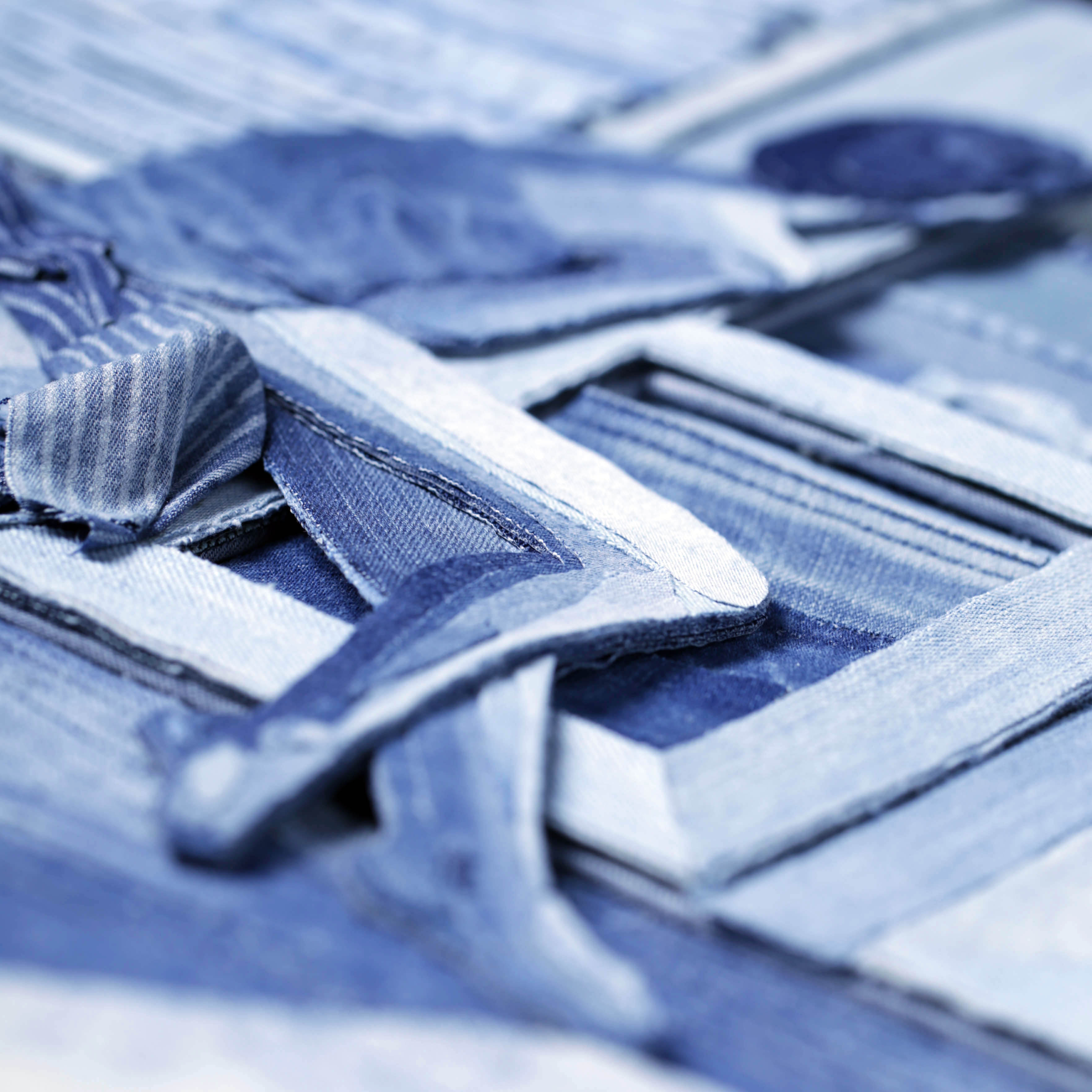 Ian's work is full of depth and texture that is hard to replicate online.